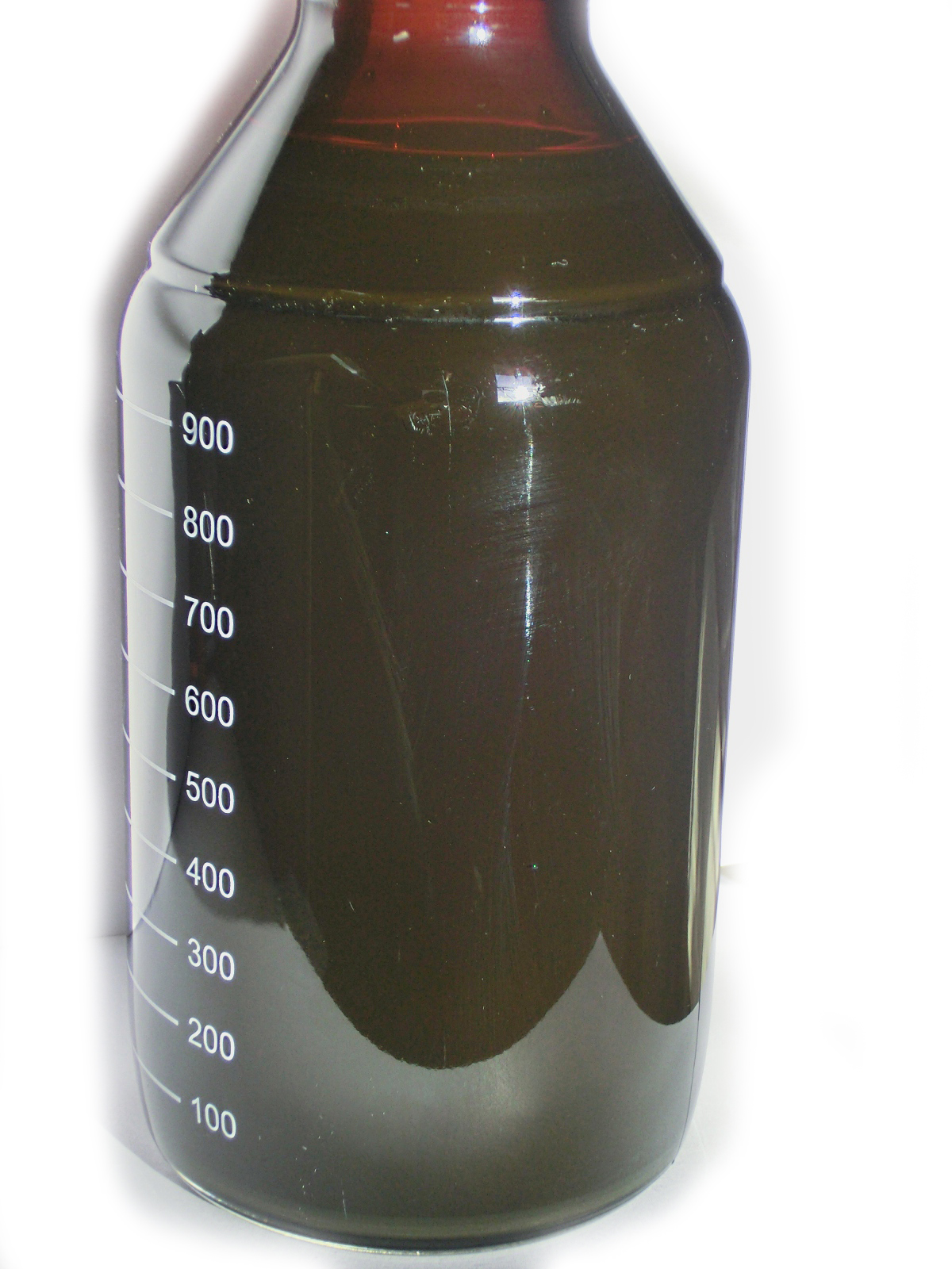 A sample of crude oil. This crude oil shows a greenish fluorescence, and has got a foul odor due to a high sulfur content